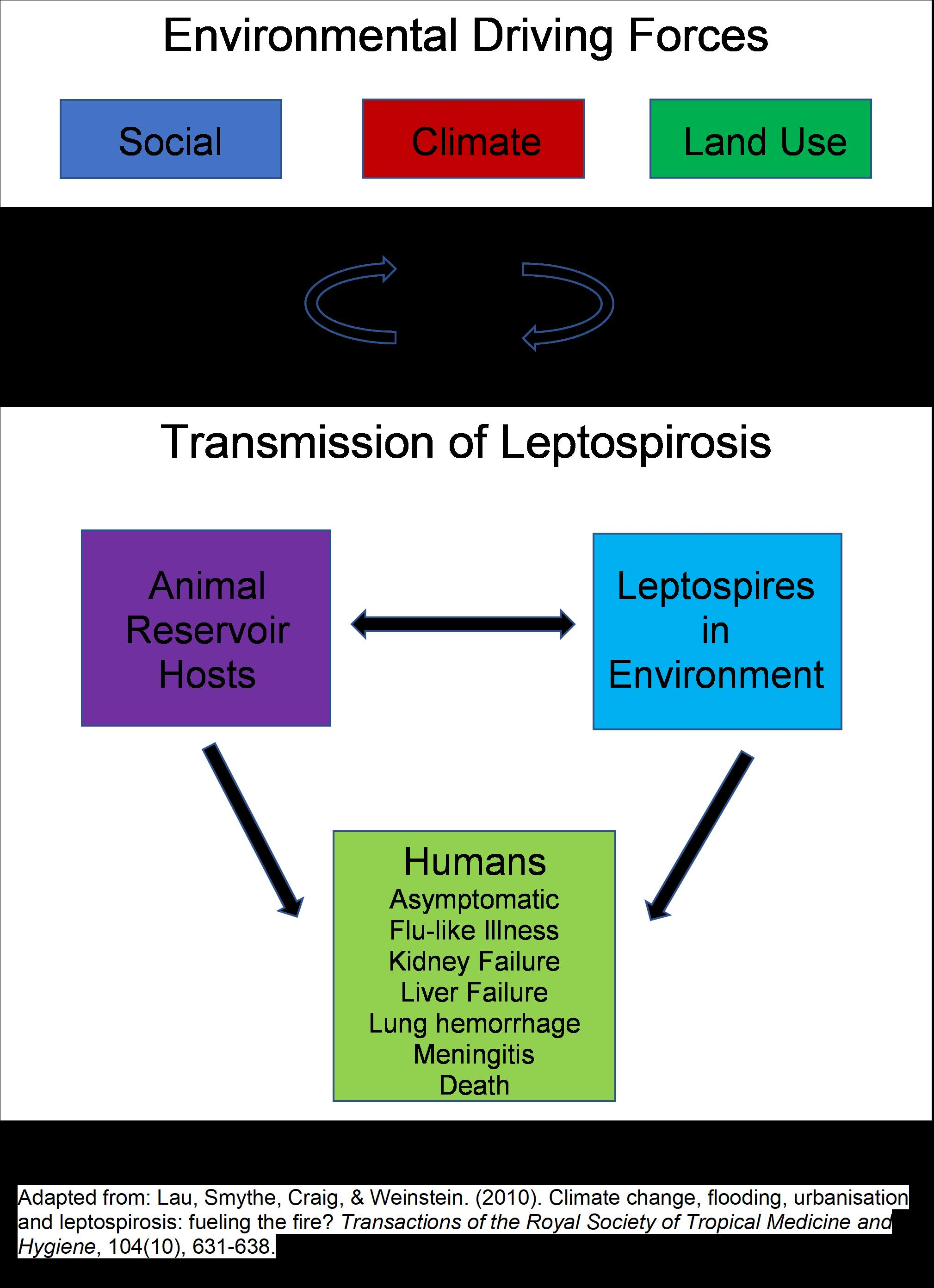 Adapted from: Lau, Smythe, Craig, & Weinstein. (2010). Climate change, flooding, urbanisation and leptospirosis: fueling the fire? Transactions of the Royal Society of Tropical Medicine and Hygiene, 104(10), 631-638.